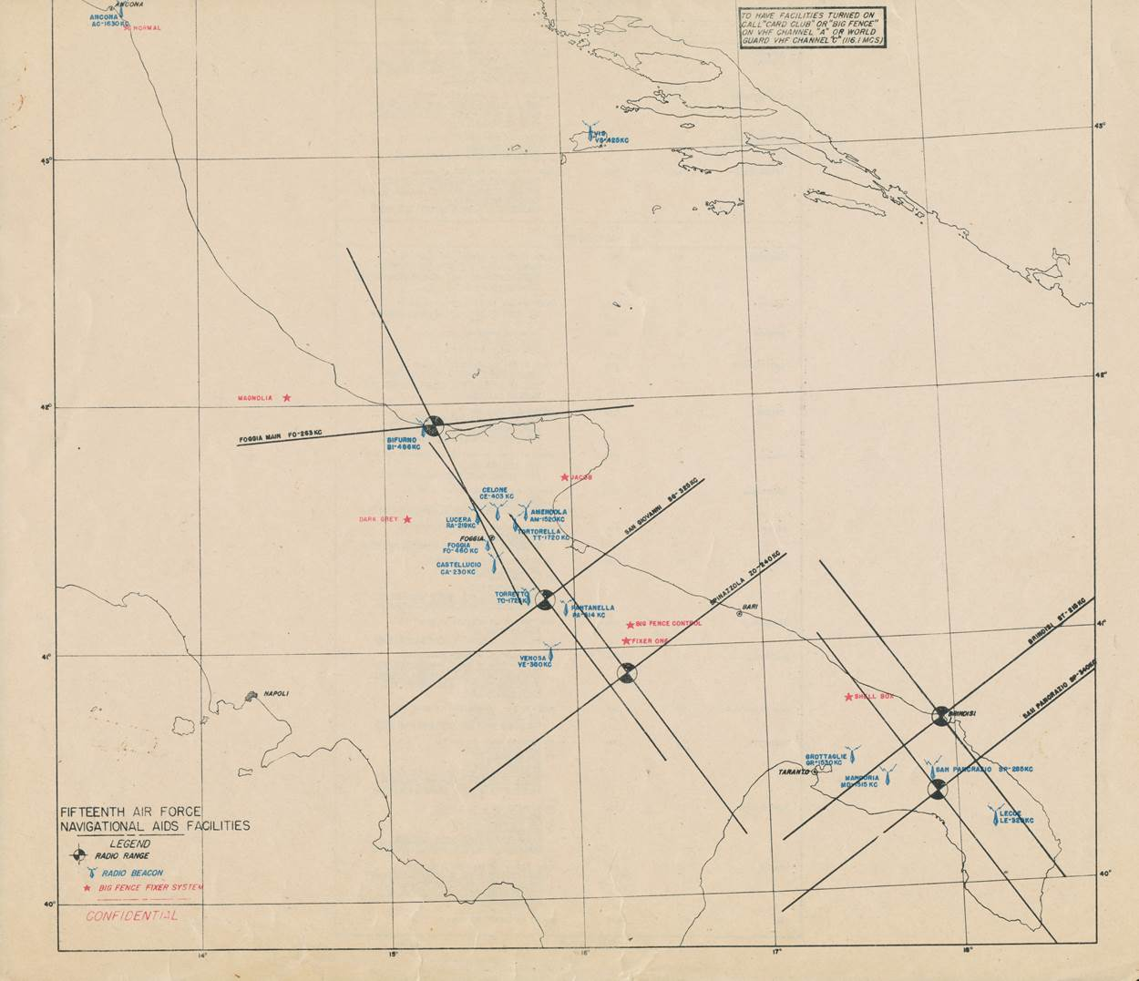 Navigational Aid Facilities Map from 1944